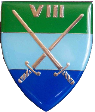 SADF era 8 Signal badge